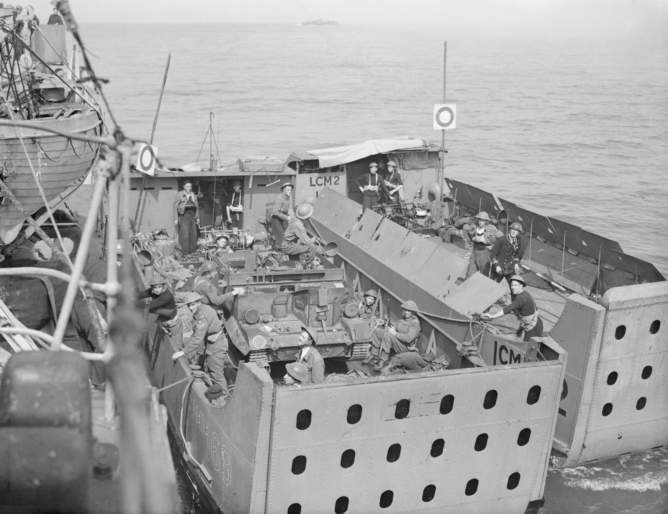 The Royal Navy during the Second World War- the Dieppe Raid, August 1942 Two of the landing craft, one containing a Bren-carrier, alongside a destroyer after returning from the beaches during the Combined Operations daylight raid on Dieppe. The landing craft mechanised are (left to right) LCM (1) 169 and LCM (1) 2.